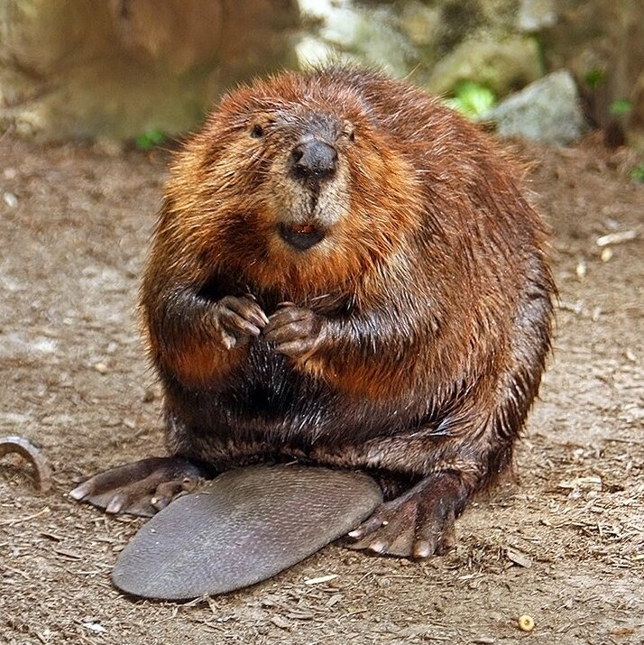 he was happily sitting back and munching on something. and munching, and munching...